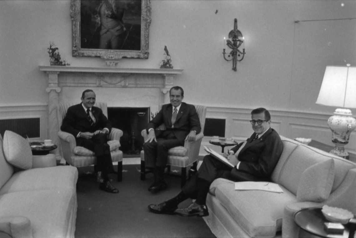 ● Frame(s): WHPO-7500-, President Nixon seated informally with Charles Colson and pollster Louis Harris. 10/13/1971, Washington, D.C., White House, Oval Office. President Nixon, Charles W. Colson, Louis Harris